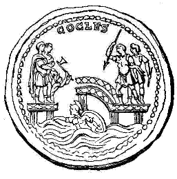 738 woodcuts illustrating the work A Dictionary of Roman Coins, Republican and Imperial (1889). To identify a coin please look at the filename to identify a page number, and check the Dictionary on numiswiki